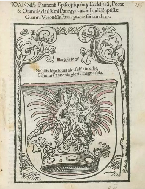 title page of Ianus Pannonius, Panegyric on Guarino, 1512